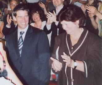 Nicole Léger (right) with Parti Québécois leader André Boisclair, her successor as Member of Quebec's National Assembly for Pointe-aux-Trembles, at the party's Pointe-aux-Trembles nomination meeting, Sunday, July 9, 2006. Self-made -- Camera used: Pentax PC-550 (35mm); Scanner: HP ScanJet 3300C. Author: A. Paquin (montrealist).